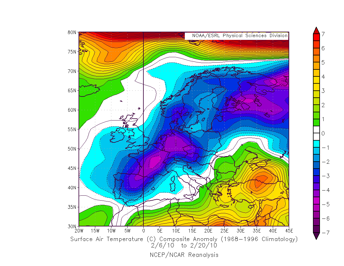 Surface temperatures anomalies for Europe, from February, 06 2009 to February, 20 2010, showing the third cold wave of the 2010 european winter.